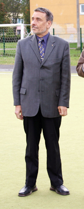 Paul-Eerik Rummo